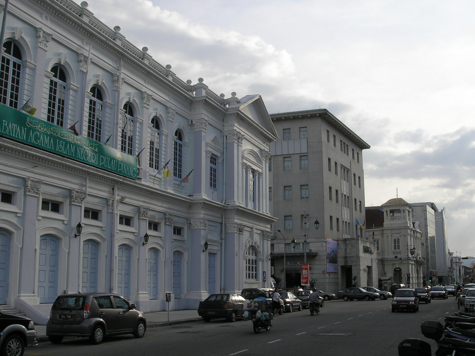 Image of the former Hongkong & Shanghai Bank building (today HSBC Bank) in the middle, the former The Netherlands Trading Society (today ABN-Amro House) in the back, at Beach Street in George Town, Penang.